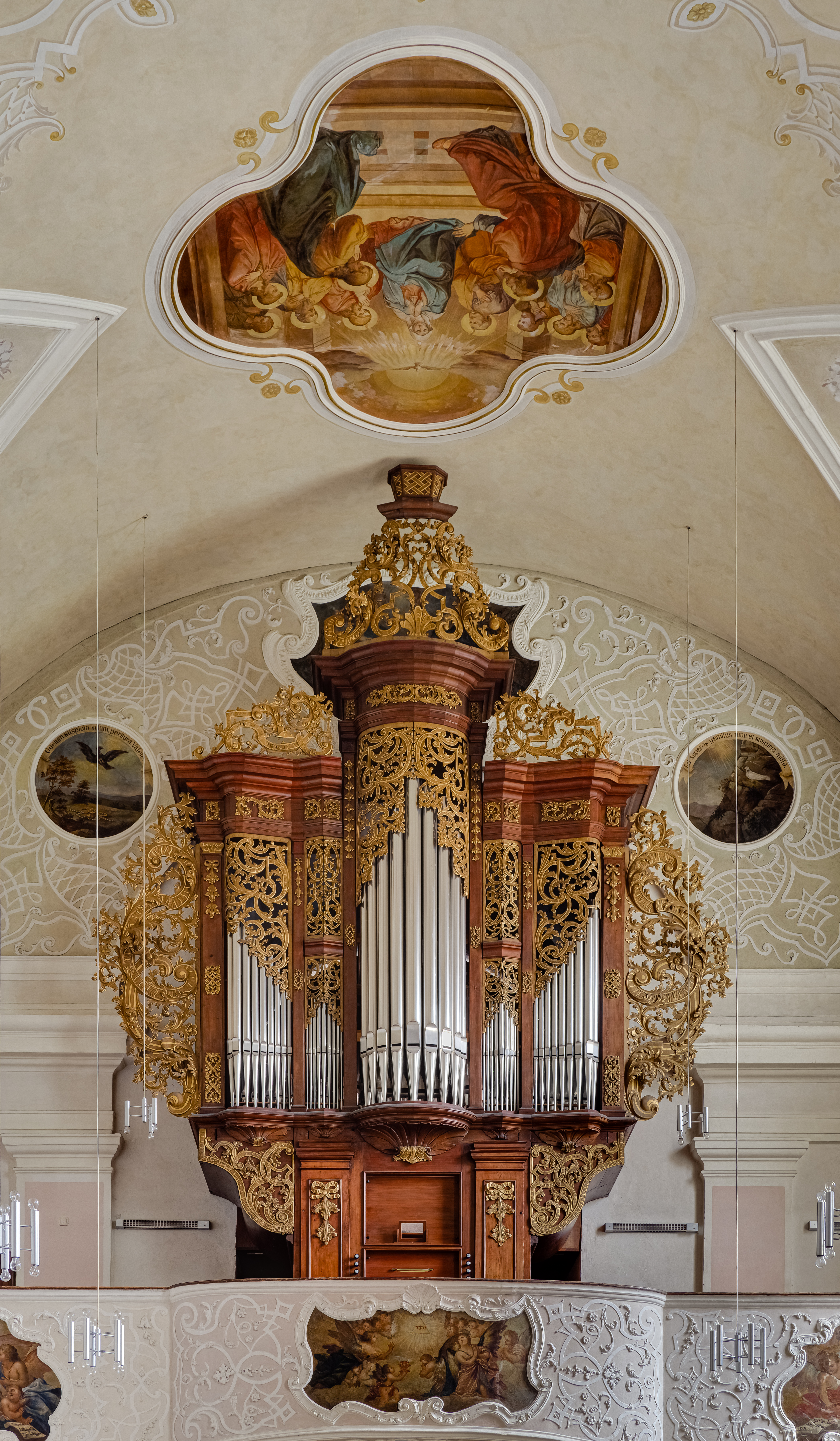 Gravestone in the interior of the former monastery church in Münchaurach